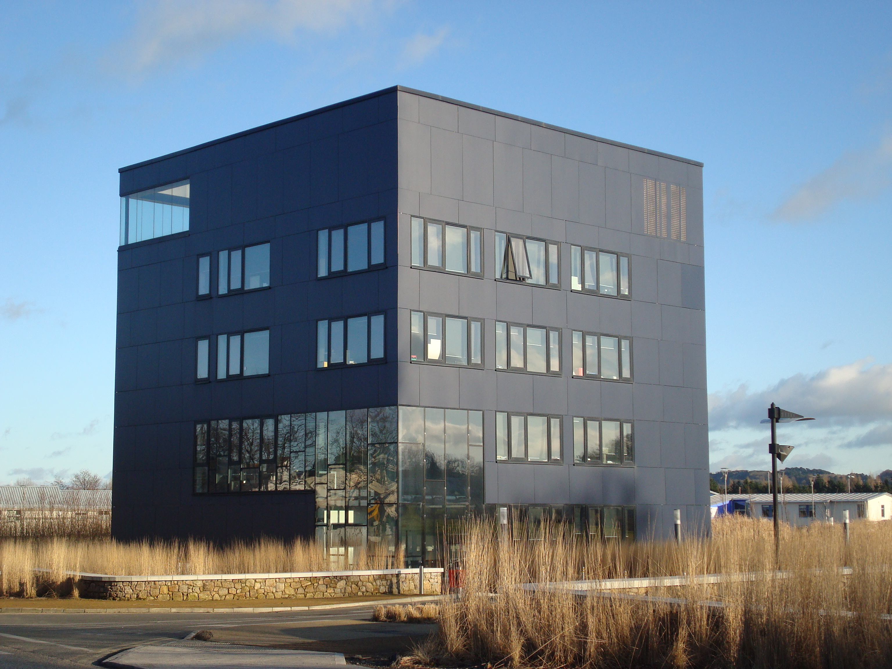 The Media Cube of the Dún Laoghaire Institute of Art, Design and Technology. Situated at the entrace to the institue.